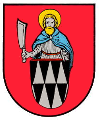 Coat of arms of Weitersweiler